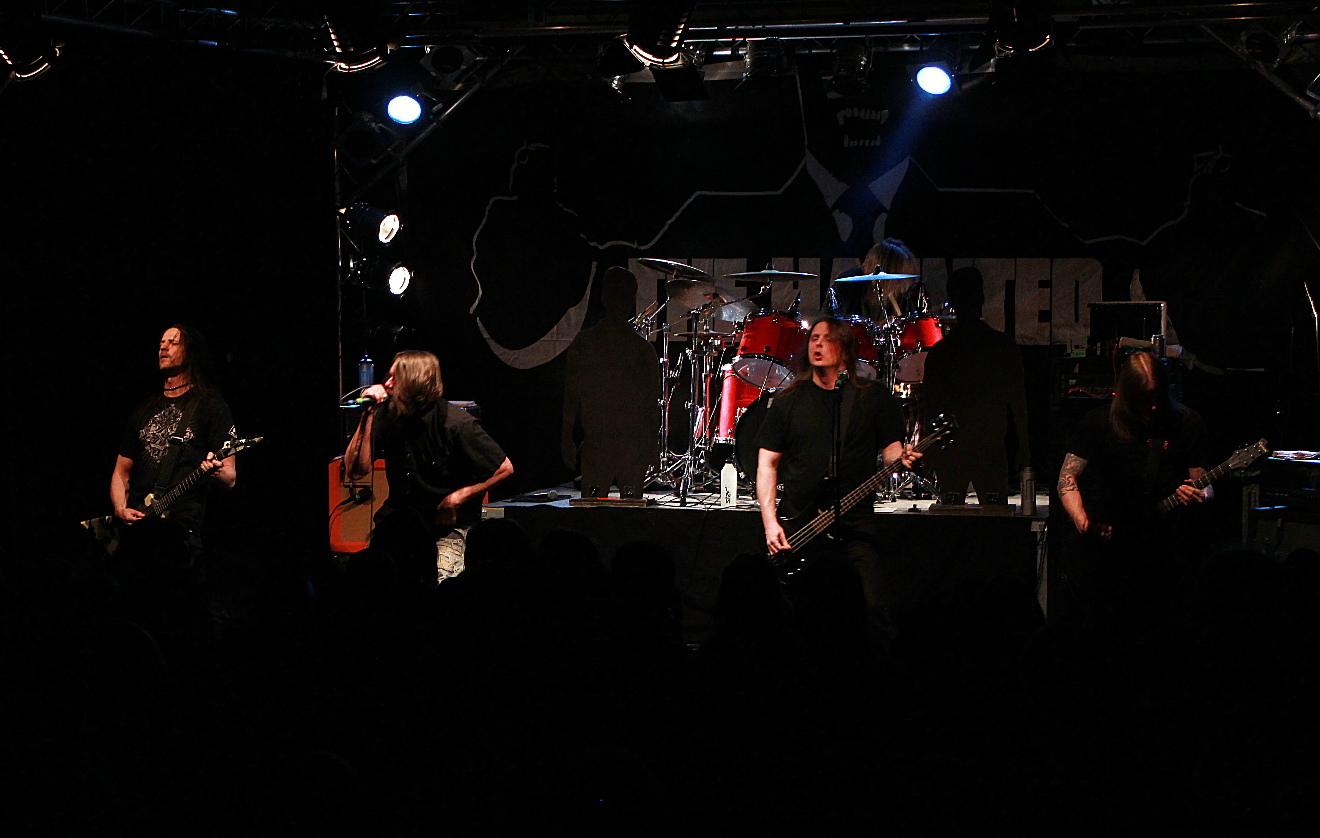 The Haunted at Arenan, Falun, Sweden.